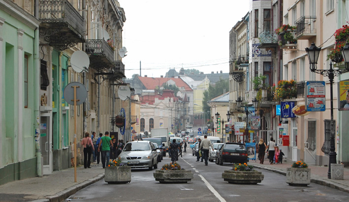 Drohobych, Stryjska Street ("Street of Crocodiles")